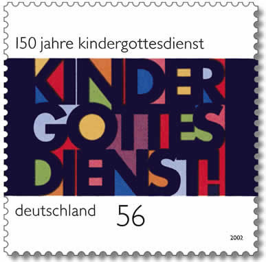 Stamp from Deutsche Post AG from 2002, 150th anniversary of Sunday school